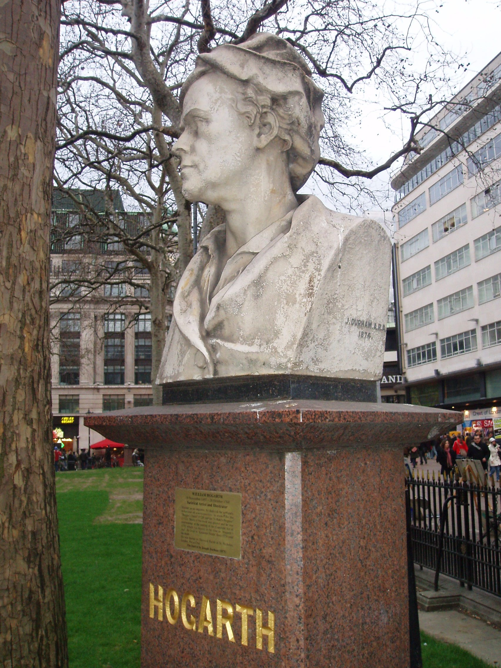 Hogarth bust. Leicester Square, London, UK.